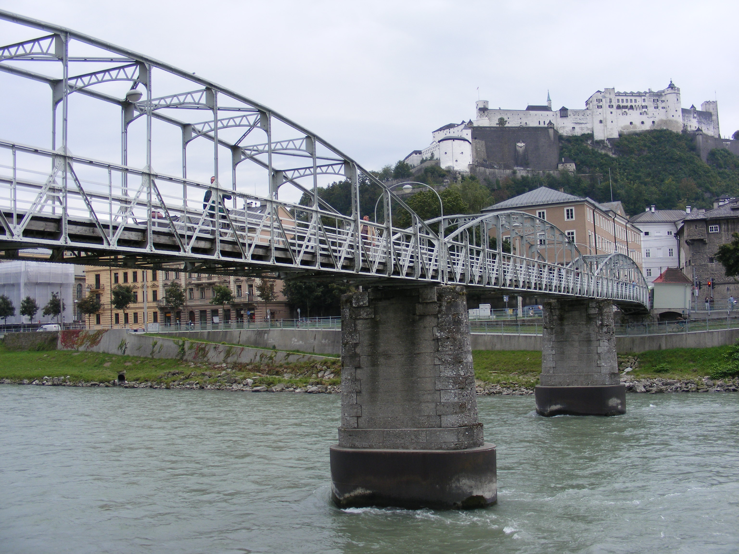 Footbridge „Mozart“, City of Salzburg